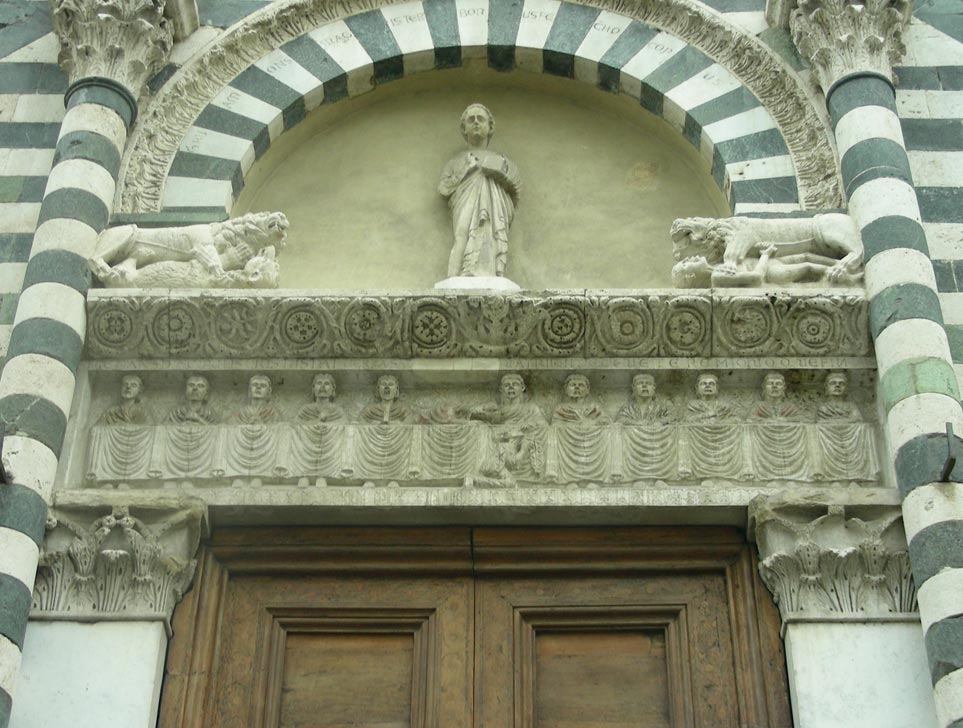 Pistoia, church of St.Giovanni Fuoricivitas, north side, the main door, sculptured decoration (12th century)